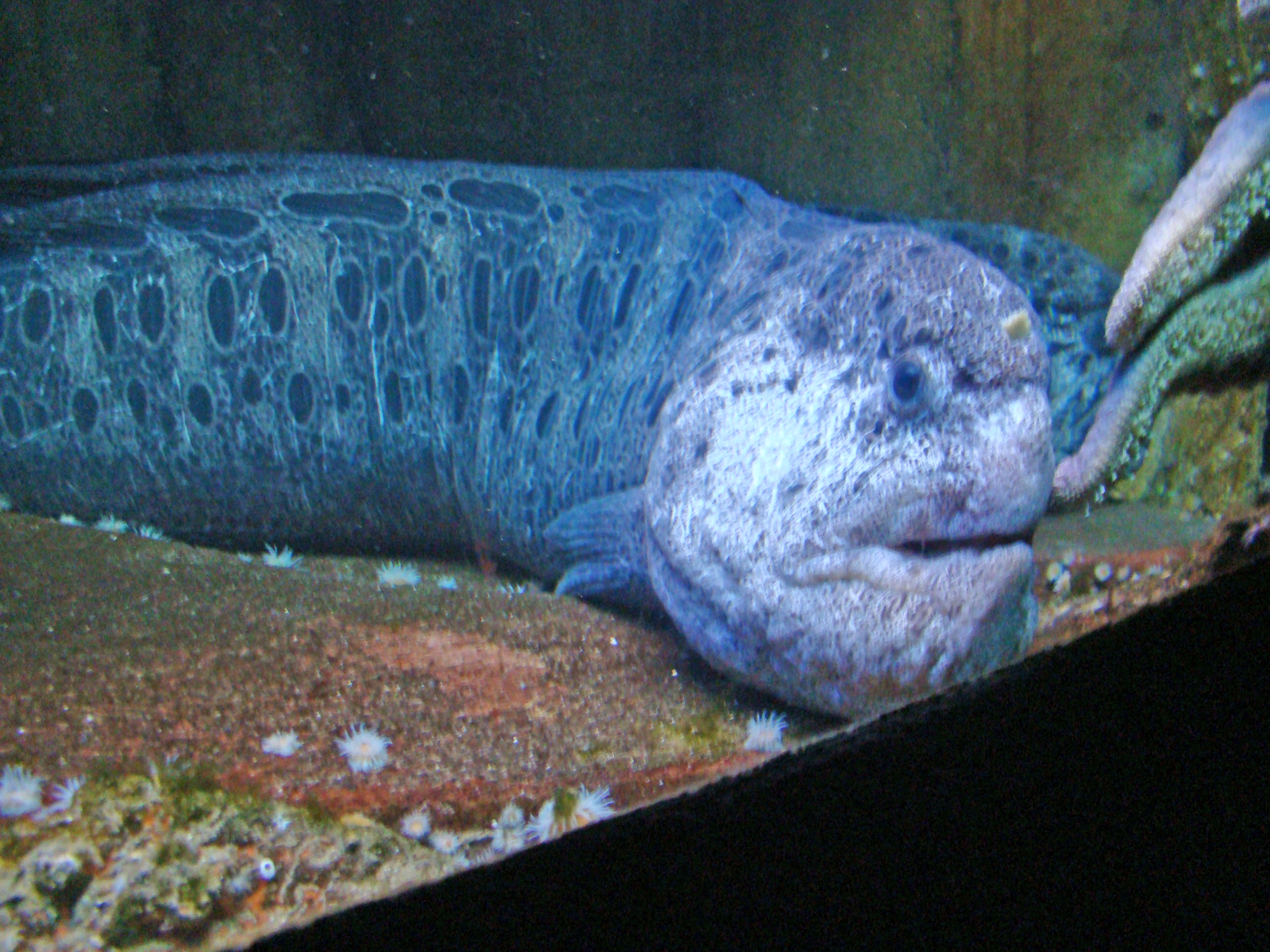 This is a wolf eel (Anarthys ocellatus or Anarrhichthys ocellatus). The photo was taken in Saint-Malo's Great Aquarium in France.